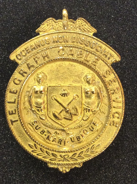 Lapel badge produced by the Eastern Telegraph Company for their workers during the First World War as a means to counter accusations of cowardice directed at them for not being at the Front. As displayed at Porthcurno Telegraph Museum, January 2019.